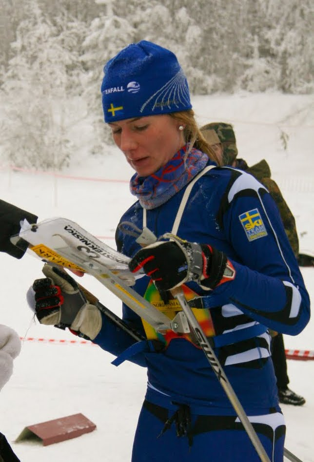 Josefine Engström. World Cup 2010. Russia, Saint-Petersburg